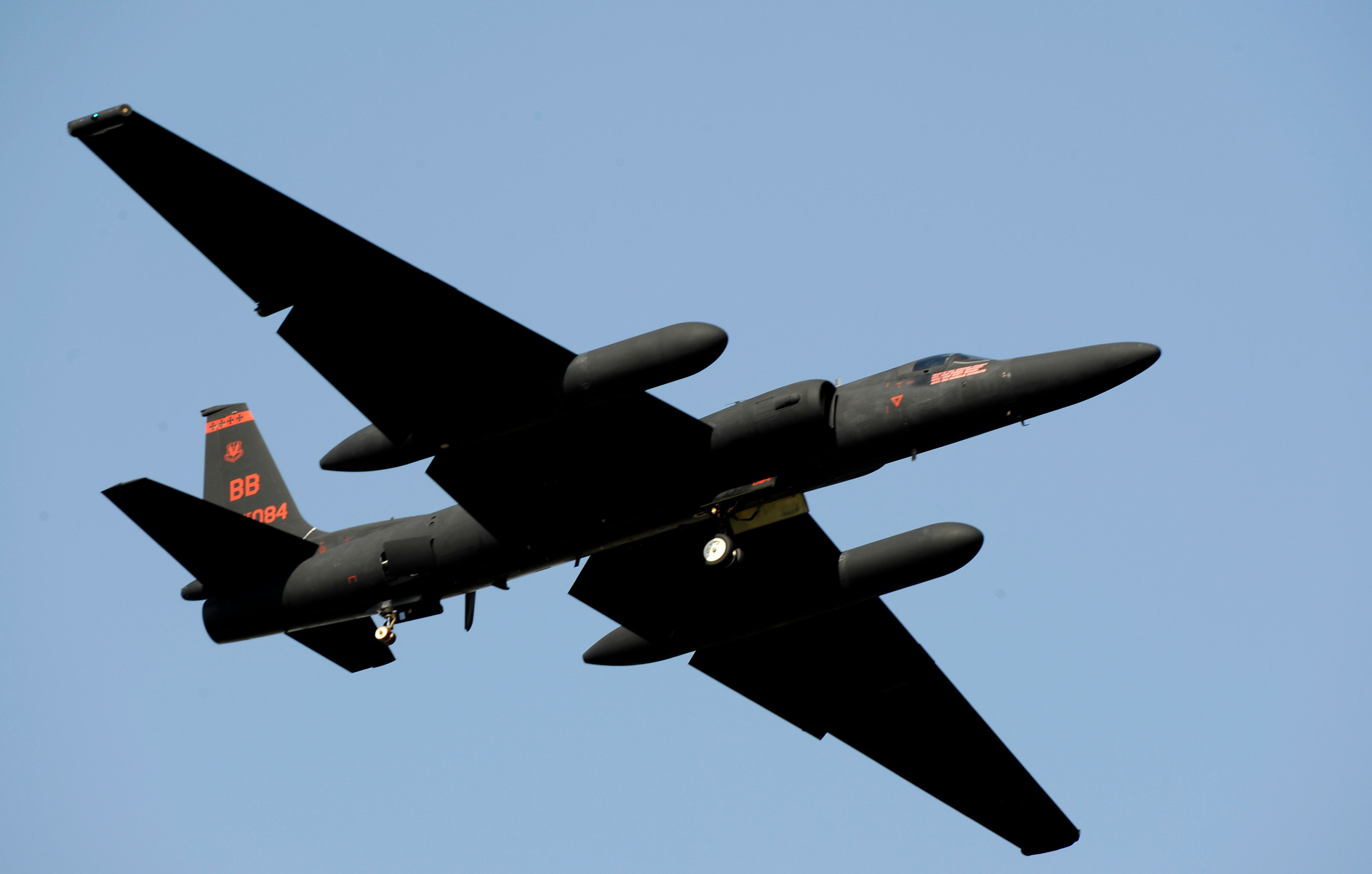 A U-2 Dragon Lady takes off from the Osan Air Base, Republic of Korea, flightline to perform an aerial demonstration during Air Power Day 2009 at Osan Oct. 21. (U.S. Air Force photo/Staff Sgt. Brian Ferguson)